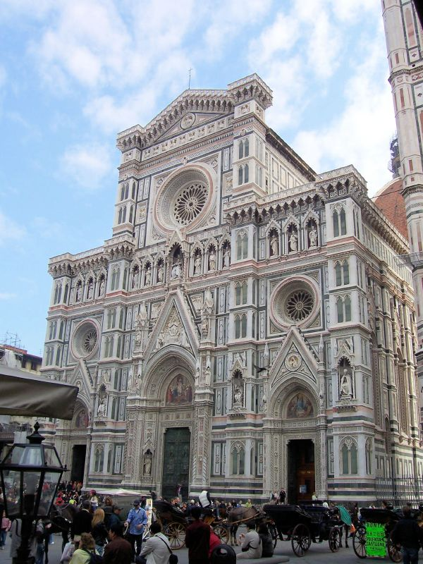 Cathedral front, Firenze, Italy